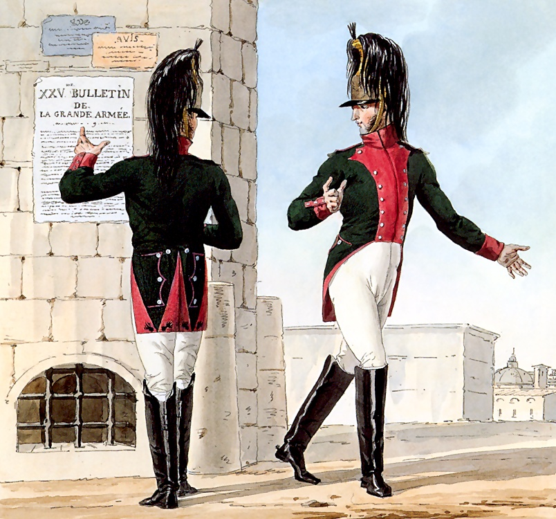 Part of a series chronicling the uniforms of Napoleon's Grande Armée.